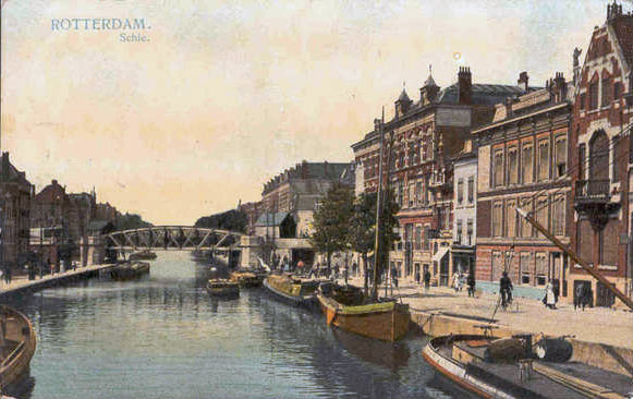 Rotterdamse Schie, Rotterdam, The Netherlands, 1910.